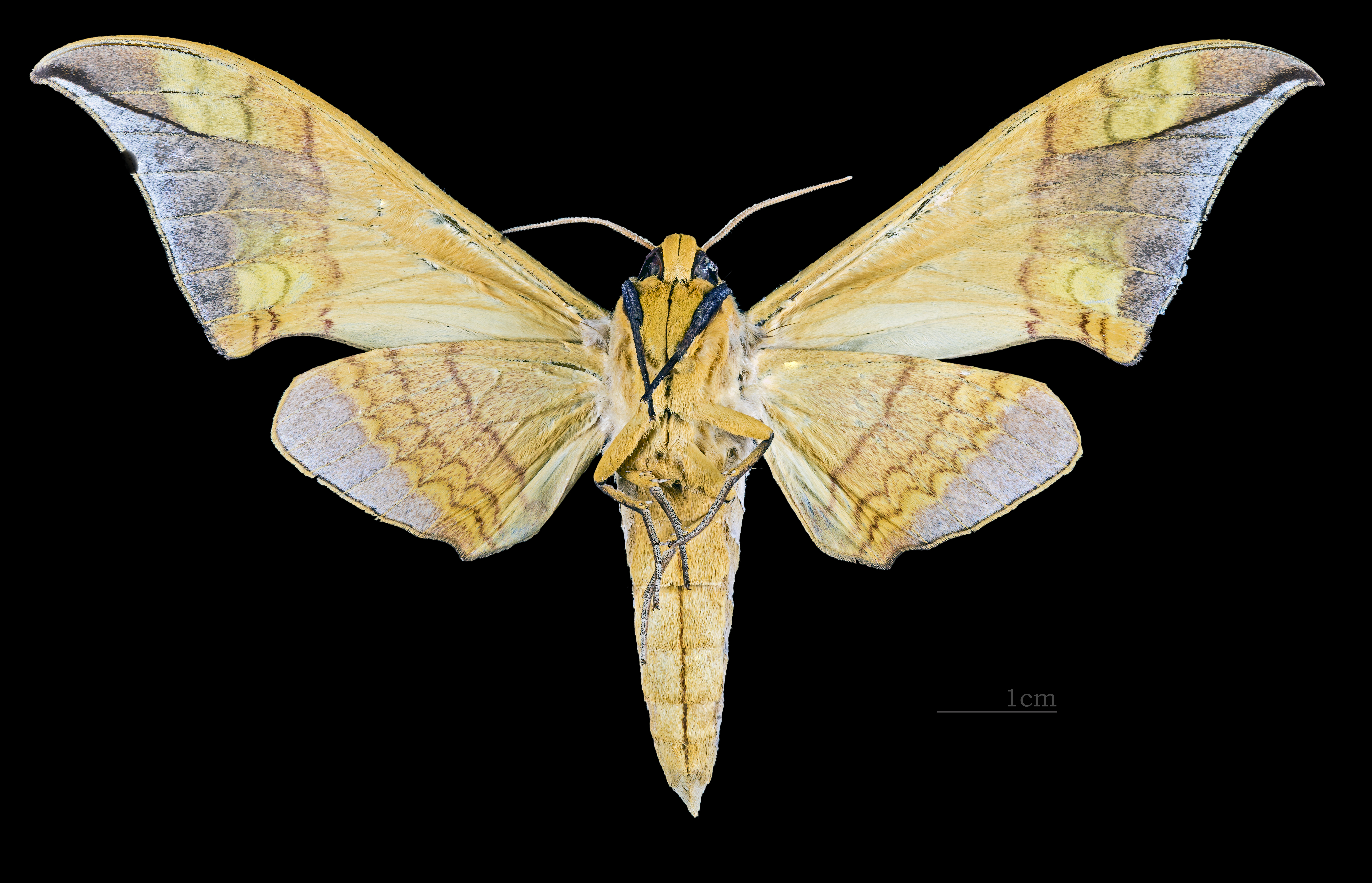 Callambulyx rubricosa rubricosa - △ Ventral side Collection of the Mathematician Laurent Schwartz